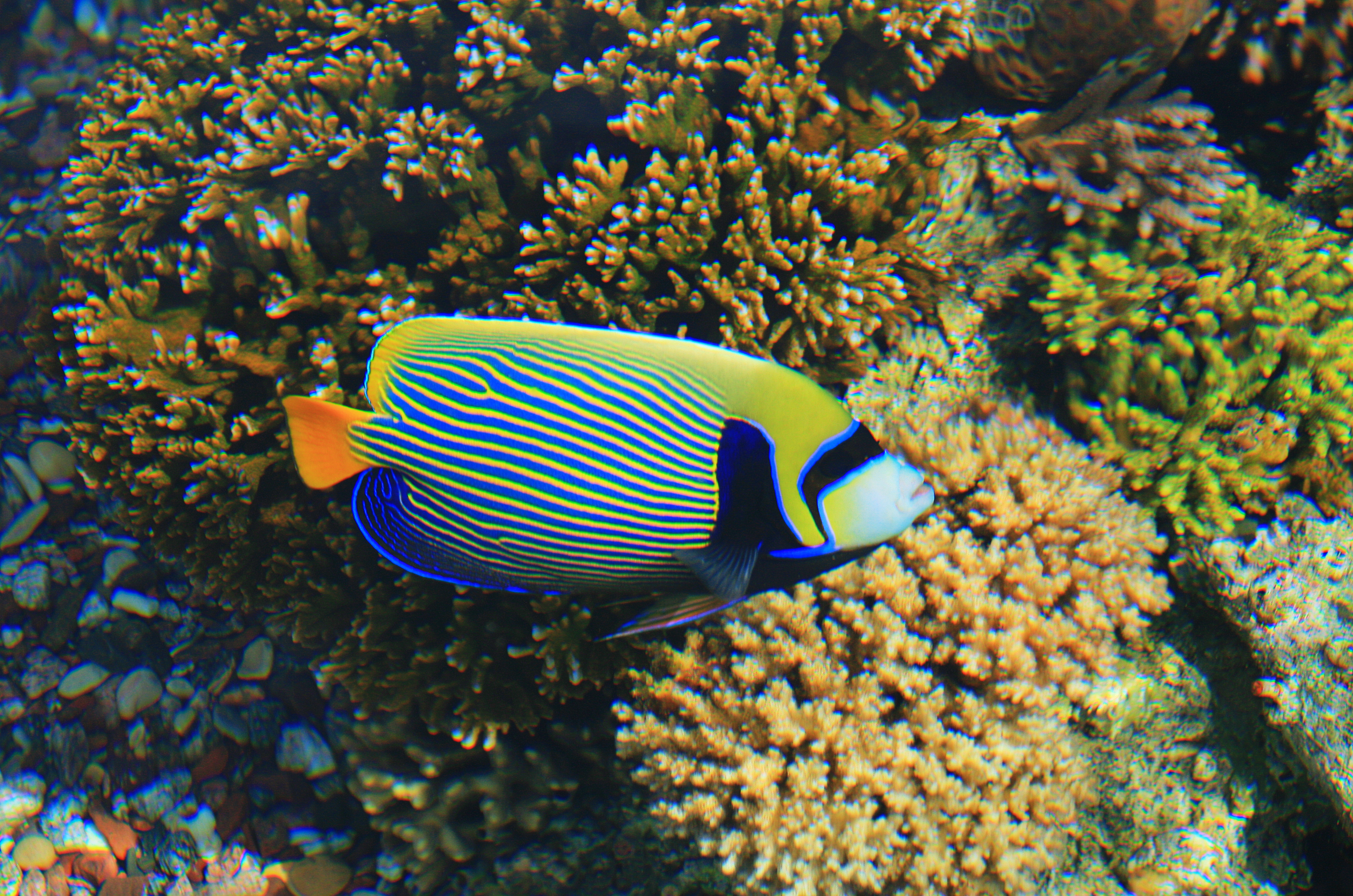 Coral Reefs in Underwater Observatory Marine Park, Eilat